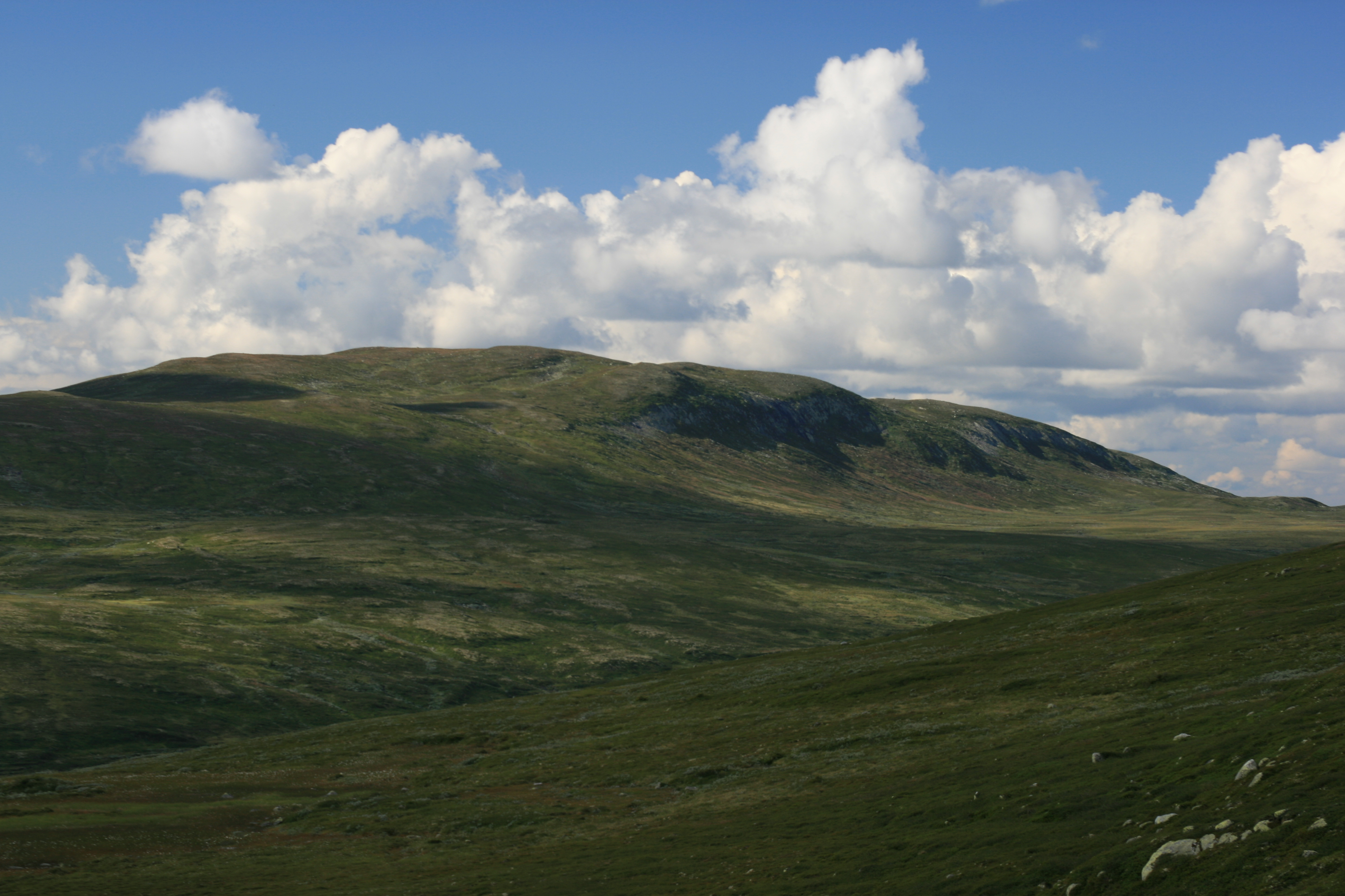 Skirveggen as seen from southeast in the summer.